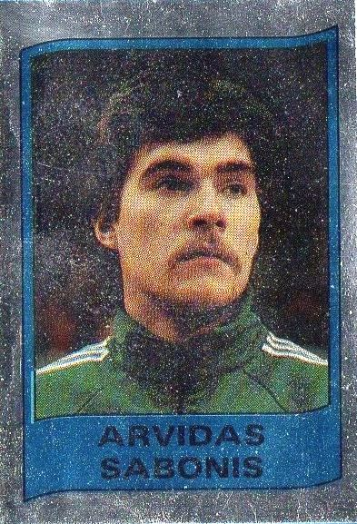 Arvydas Sabonis.